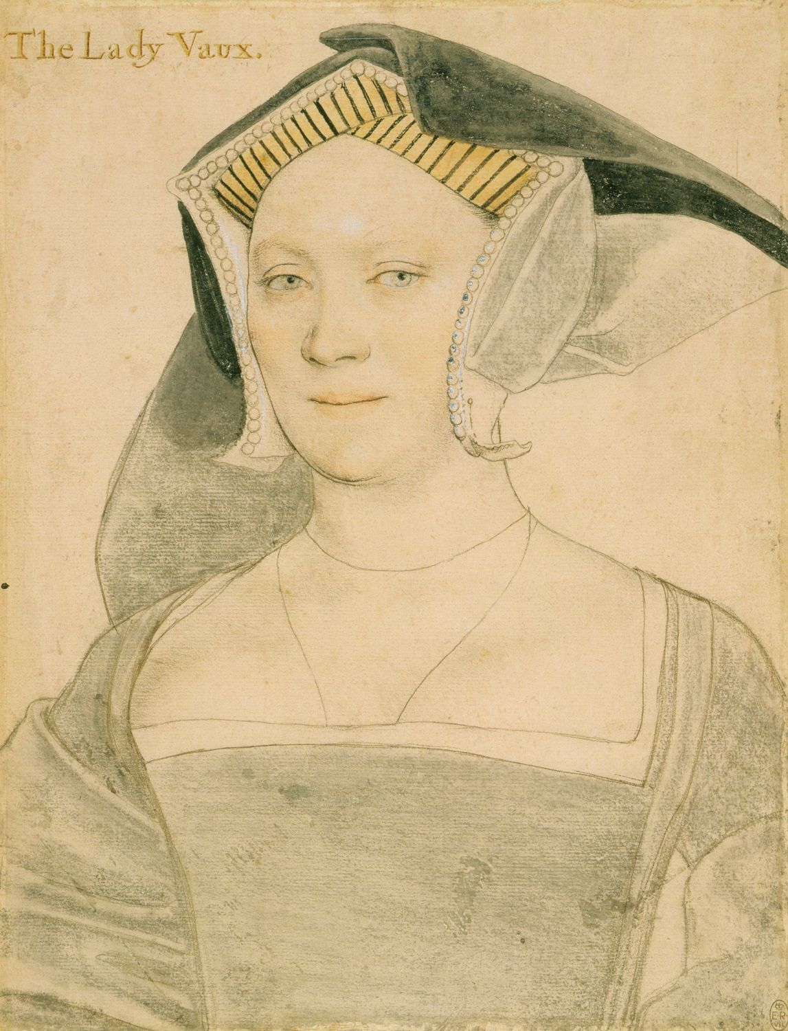 According to art historian K. T. Parker, who studied the Windsor collection, the drawing has been retouched with insensitive penwork, the wash in the headdress is clumsy, and the black chalk basis of the drawing is badly rubbed (Parker, pp. 42–43). Holbein's left-handed shading is, however, still discernible. Two paintings based on the drawing survive, neither by Holbein himself. Holbein also twice drew Lady Vaux's husband, Thomas, once with long hair and once with short. Reference K. T. Parker, The Drawings of Hans Holbein at Windsor Castle, Oxford: Phaidon, 1945, OCLC 822974.